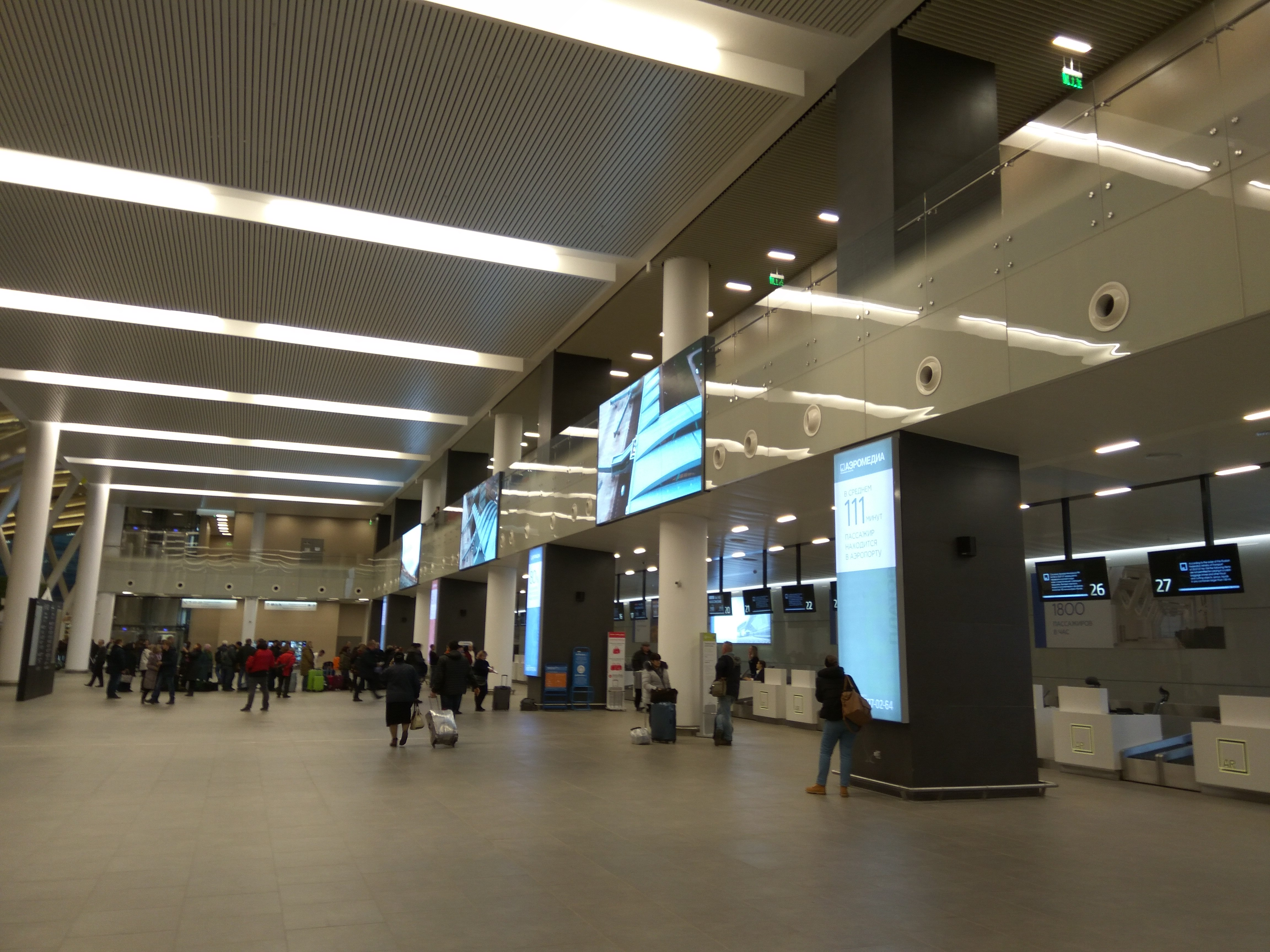 Platov International Airport, Rostov-on-Don